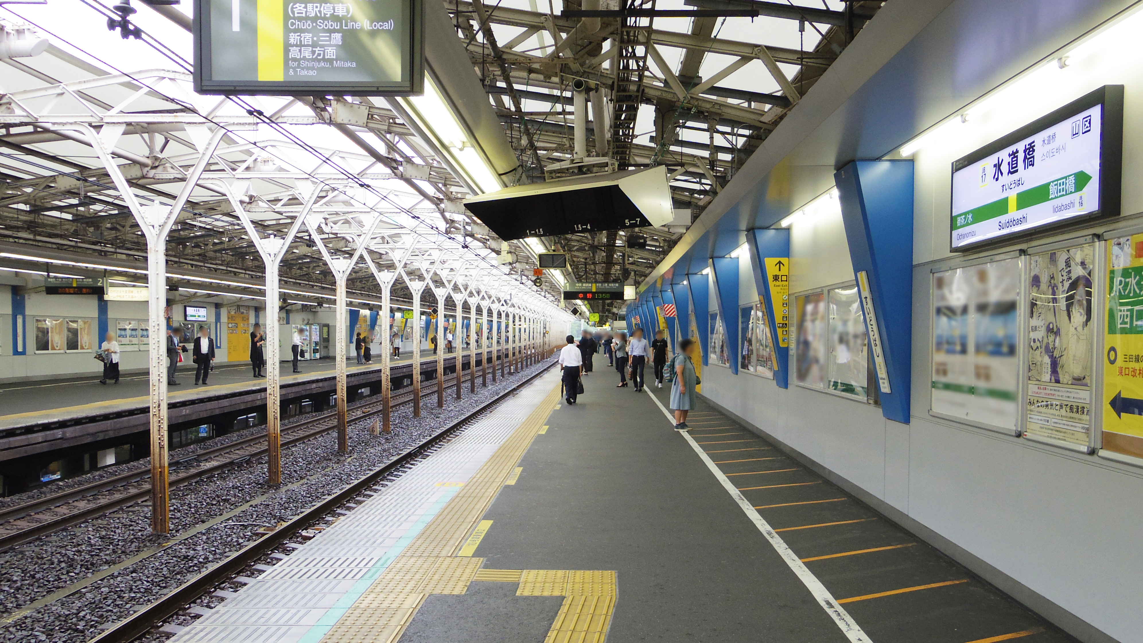 The platforms at Suidōbashi Station on the Chūō-Sōbu Line(Chūō Main Line) in Chiyoda city, Tokyo, Japan